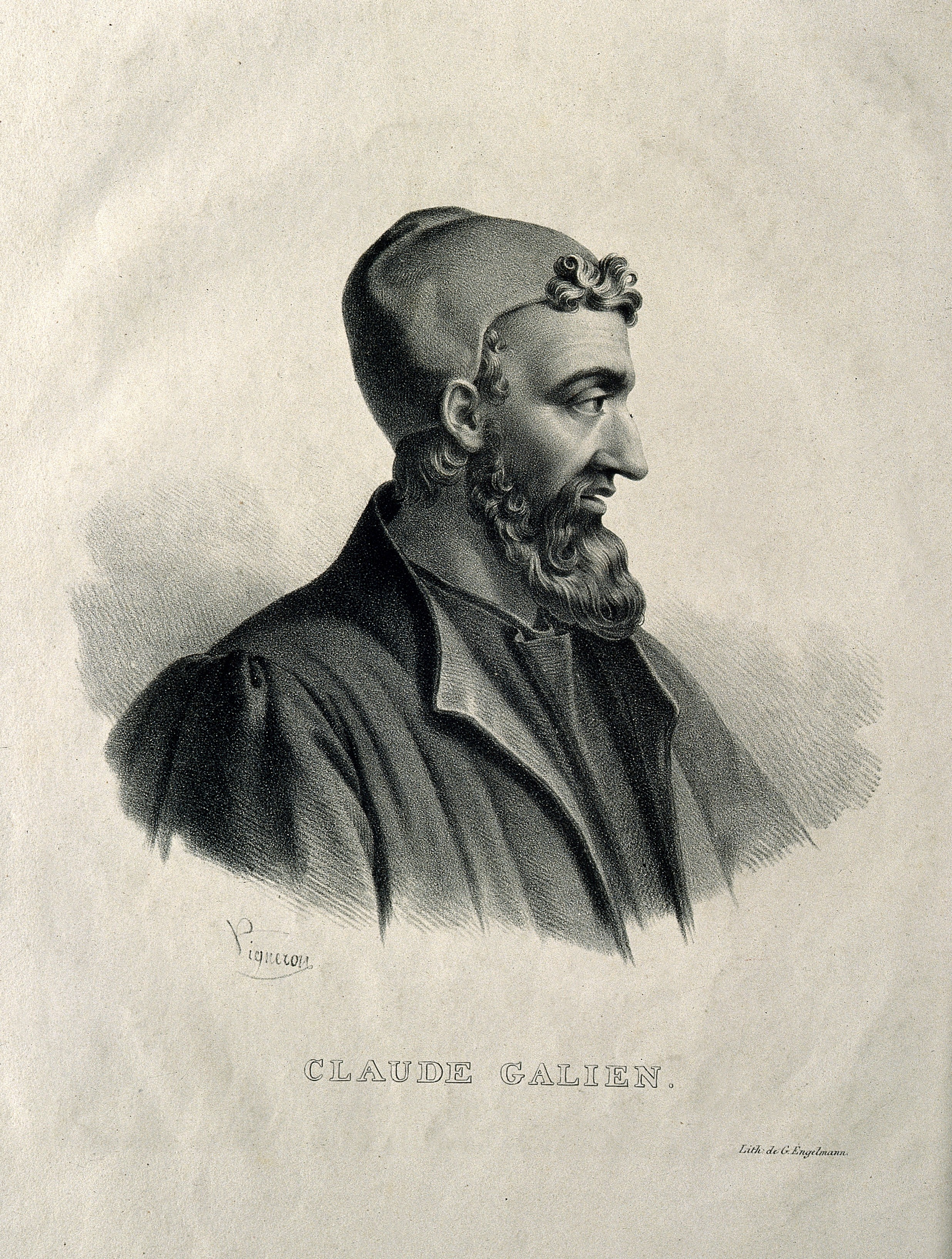 Iconographic Collections